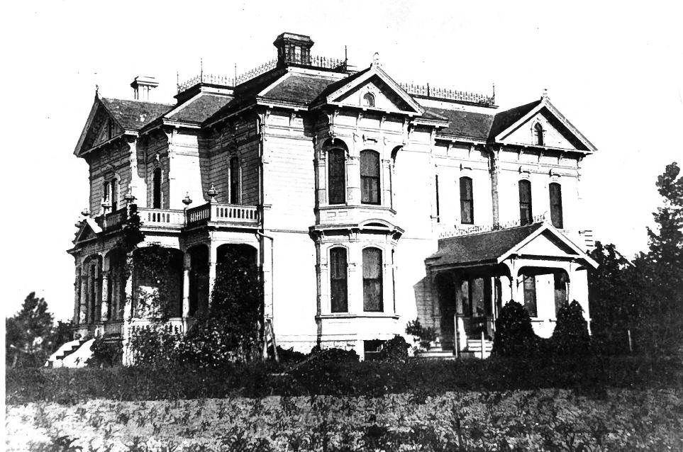 Nat'l Register of Historic Places - Nomination Form, USDI, NPS